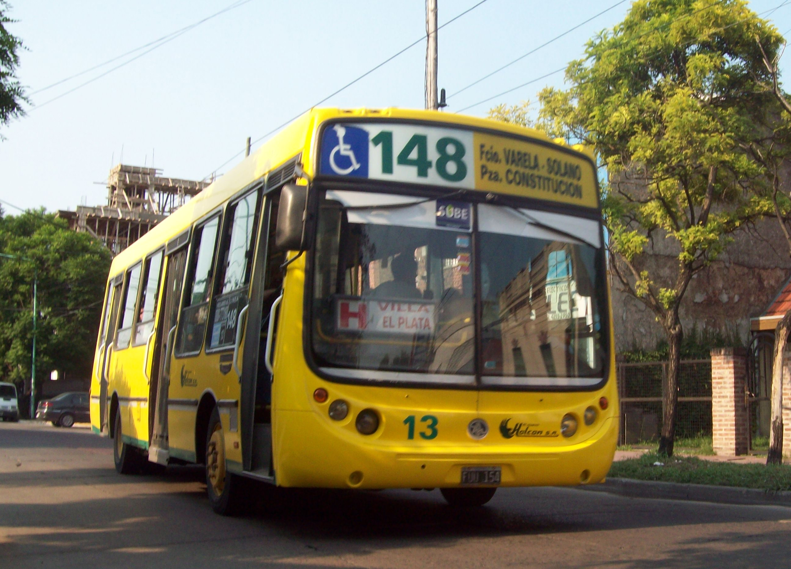 Metalpar bus (reg. F... 154, #13) in Florencio Varela, Buenos Aires Province, Argentina. Colectivo, line 148, El Nuevo Halcón S.A. operator.